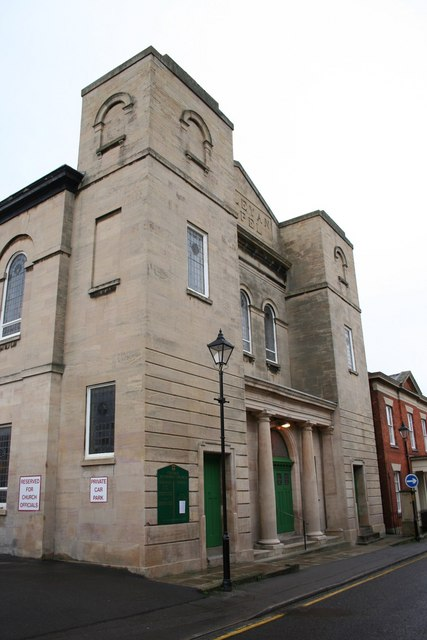 Finkin Street Wesleyan Chapel, Grantham, Lincolnshire. The chapel was built in 1840. Inside is a large balcony and a lectern dedicated to Alderman Alfred Roberts, local Methodist preacher and father of Margaret Thatcher.